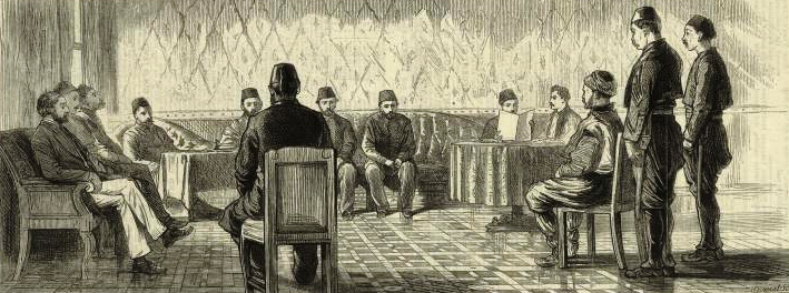 Mid-Manhattan Library / Picture Collection NYPL Call Number: PC TRI-18 Caption: "The trial of the Bashi-Bazouks : the court of the first day." Printed on border: "Ikiades (Greek), Sadoullah Effendi (president of the court), Selim Effendi, Wassa Effendi Pashko Vasa (a Christian Albanian), Mr. Baring's dragoman, Mr. Walter Baring, Jovantcho (a Bulgarian), Counsel for the prisoner, Pertev Effendi, The prisoner." Written on border: "J. 6, 1877."